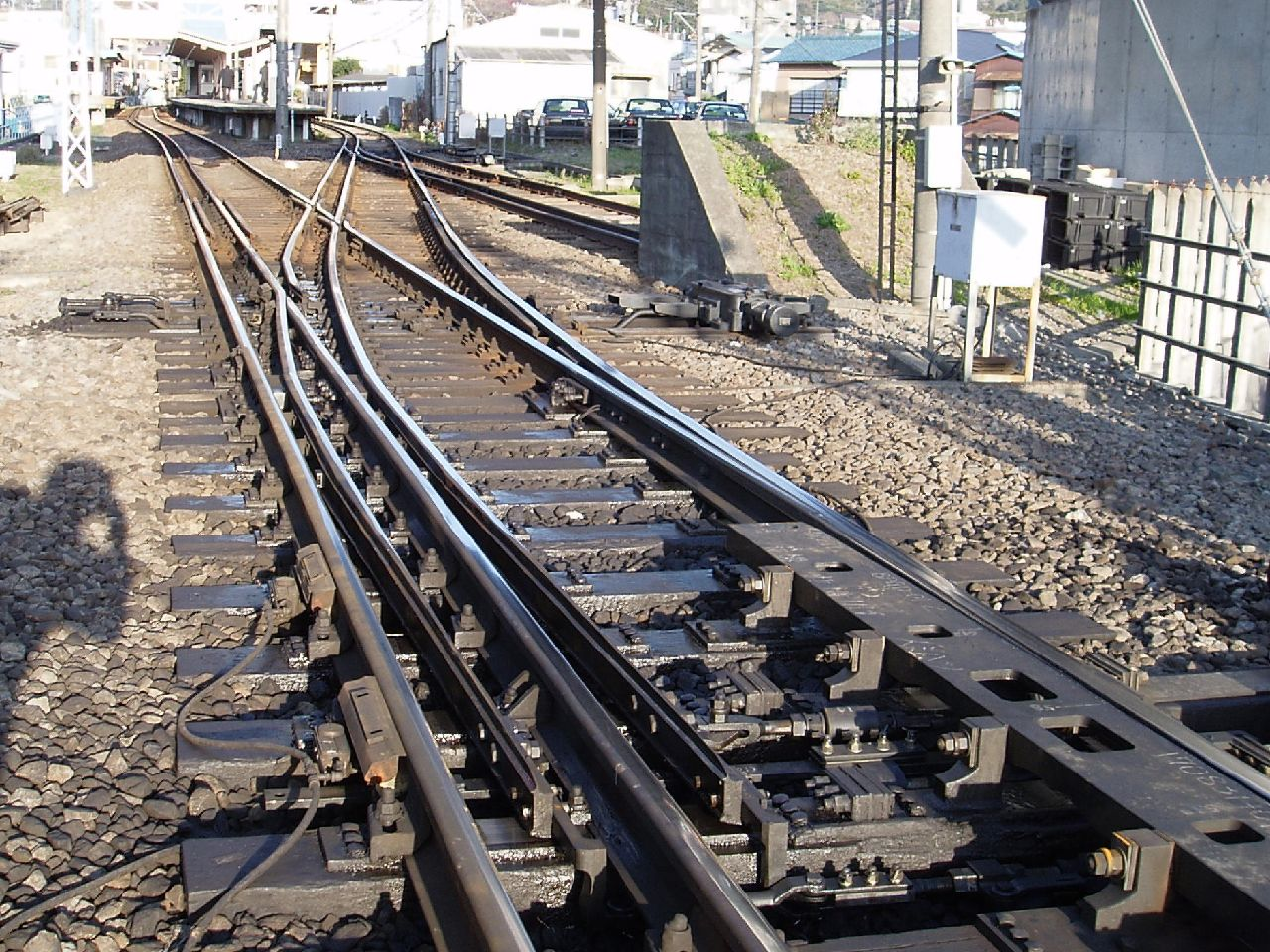 Dualgauge switch.